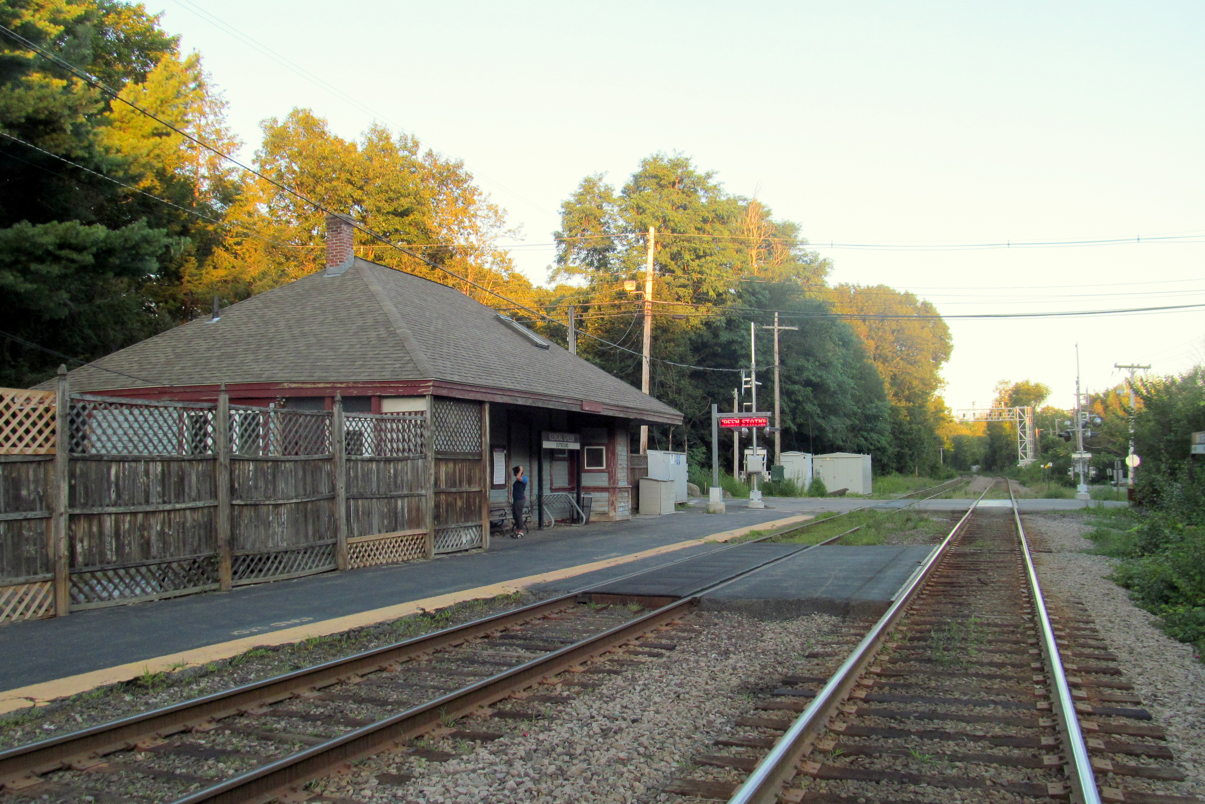 Kendall Green station in August 2015